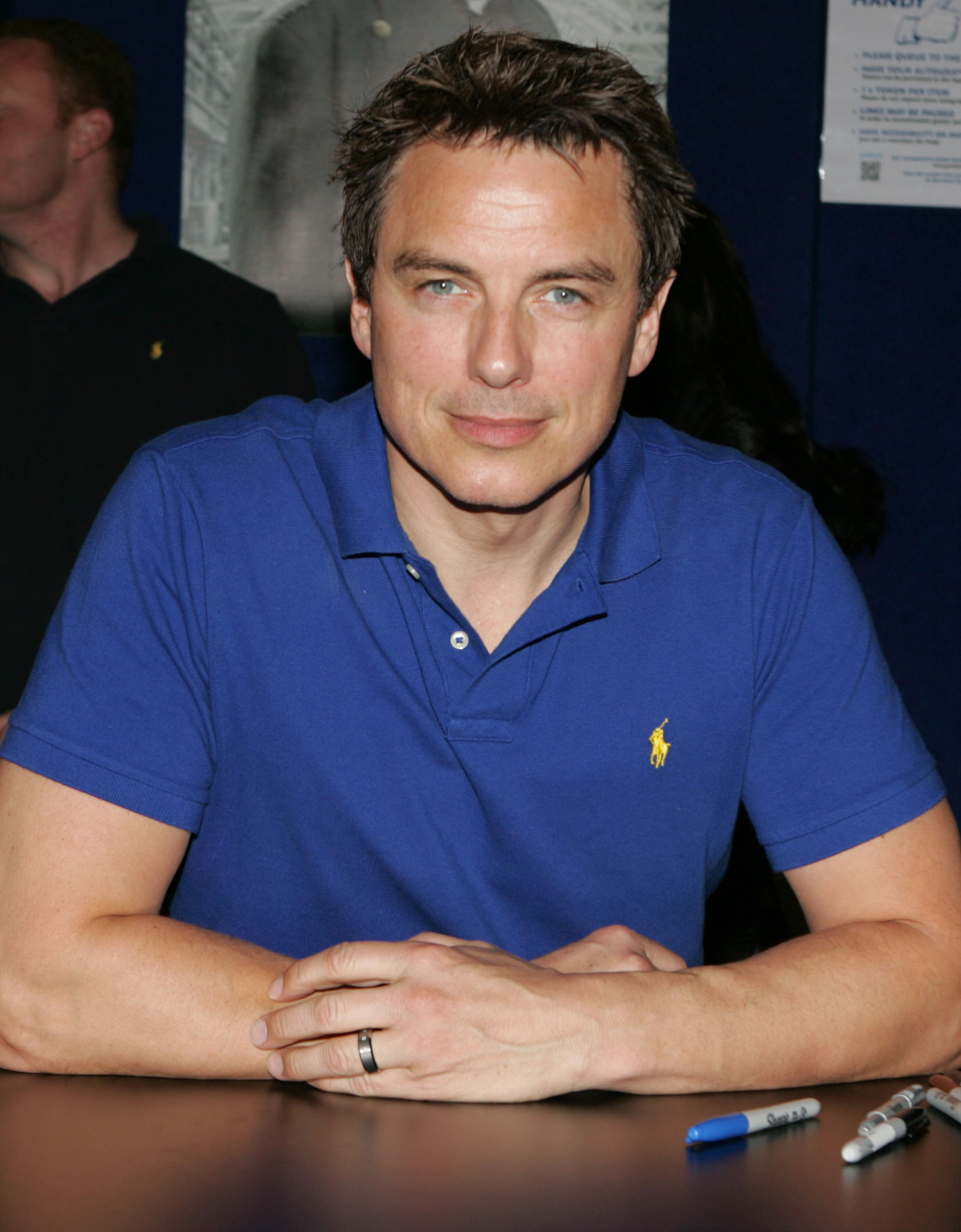 Supanova Pop Culture 2014